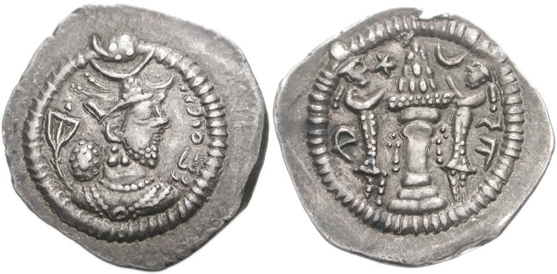 Coin of the Sasanian king Peroz I, minted in the Sasanian province of Pars.